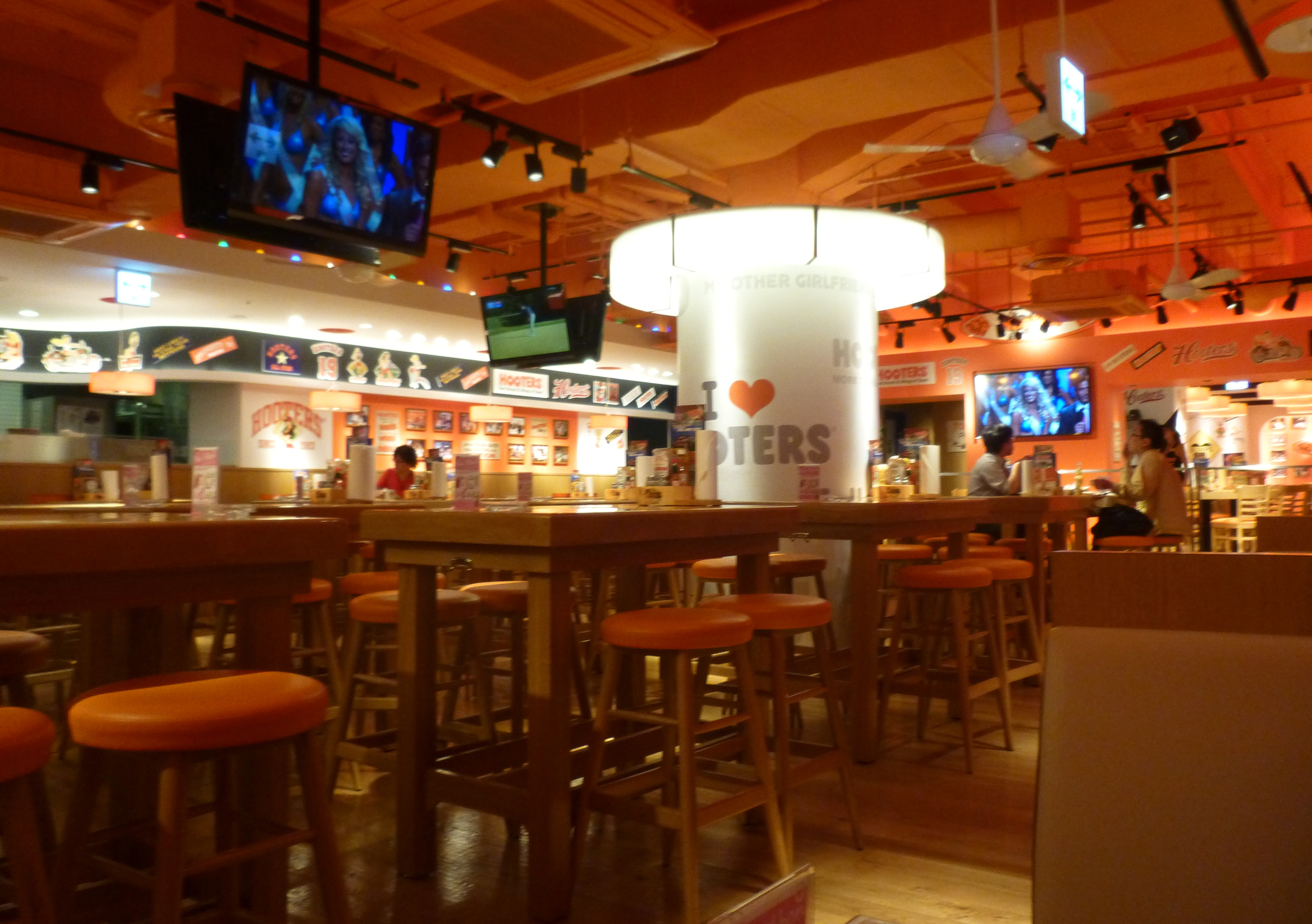 Japan Hooters (Ginza)